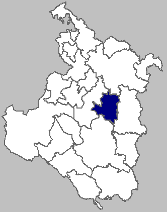 Self-made map of Krnjak municipality within Karlovac County.